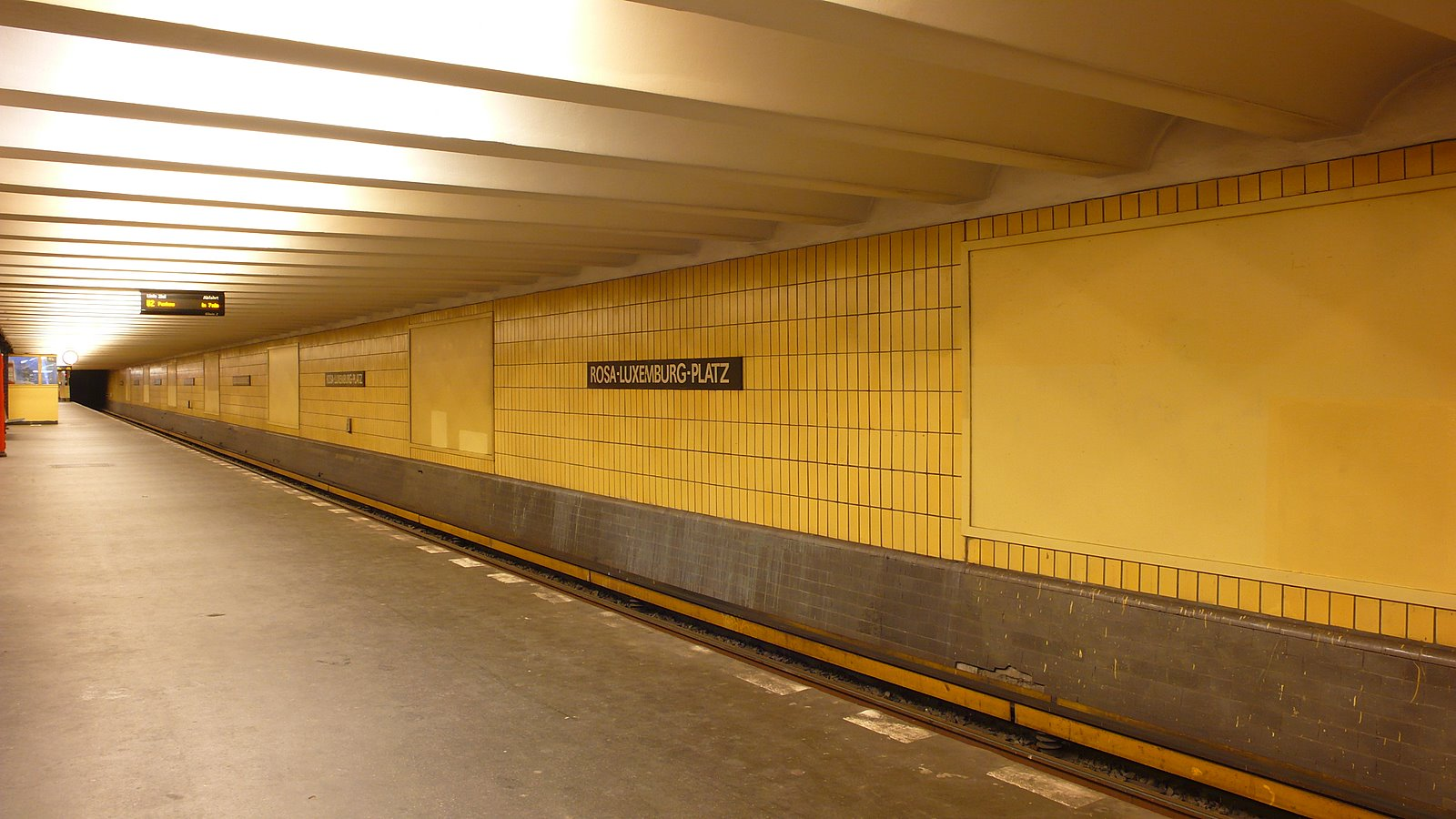 Subway Rosa Luxemburg Platz